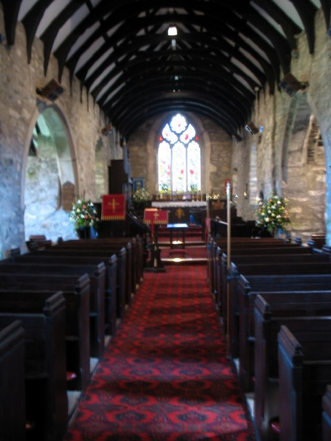 The interior of Eglwys St Mechell Church, Llanfechell. The church has been decorated for the Easter services. This was the church attended by Sir William Bulkeley of Brynddu, the diarist, of nearby Brynddu. He complained much of the length of the morning service which began at 9am. On more than one occasion the Parson, a kinsman of Bwcle, was still rambling on well after mid-day. On Boxing Day 1736, Bwcle wrote "The Parson finished the sermon he began on the 19th inst, We were kept so long..that it was above half an hour past one when we went out". On April 1st, 1738, at the Easter Vigil service "the parson spent above two hours in expounding, or rather confounding, ye Catechism, which being originally mysterious (sic) if not in many places absurd. I think he made it ten times worse"